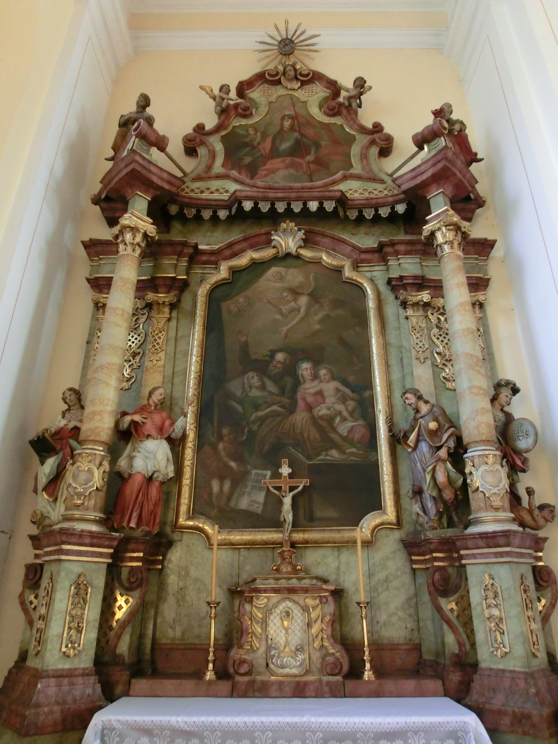 Altar of St. Anna in Assumption Church Jeseník